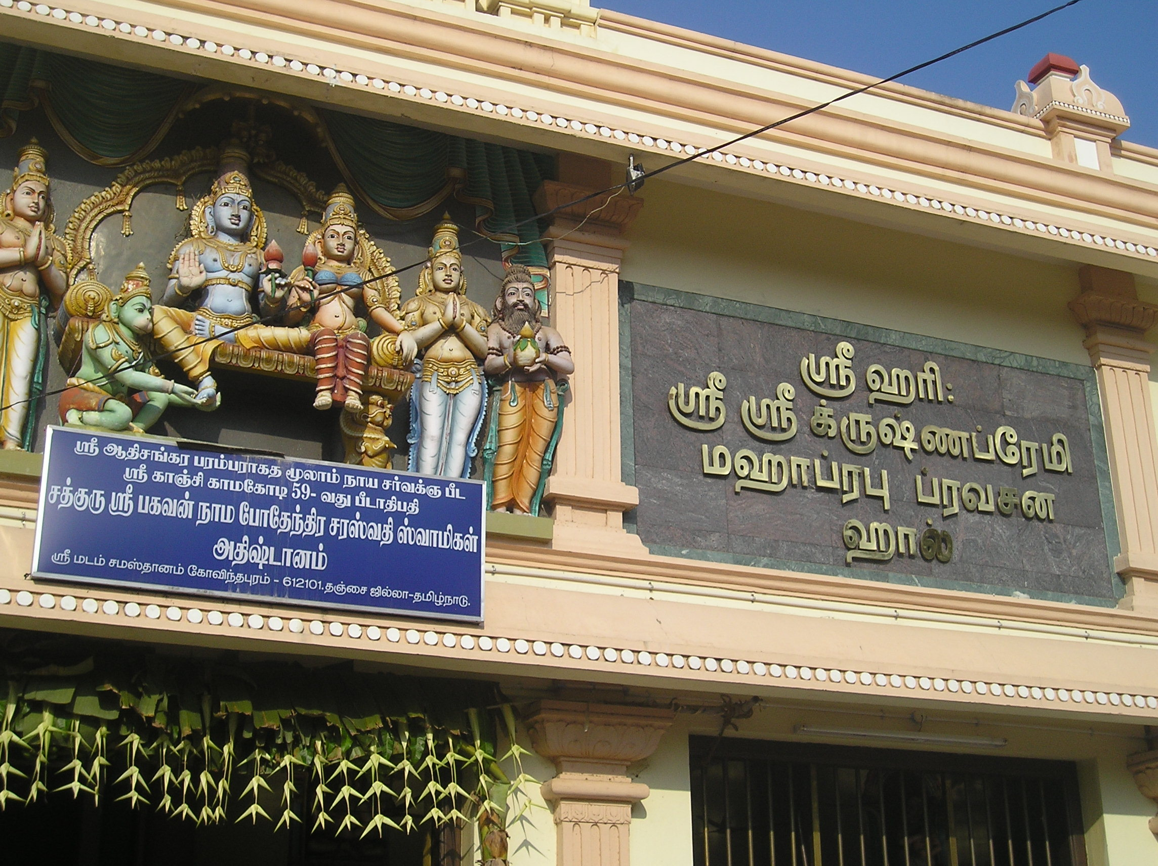 Govindapuram